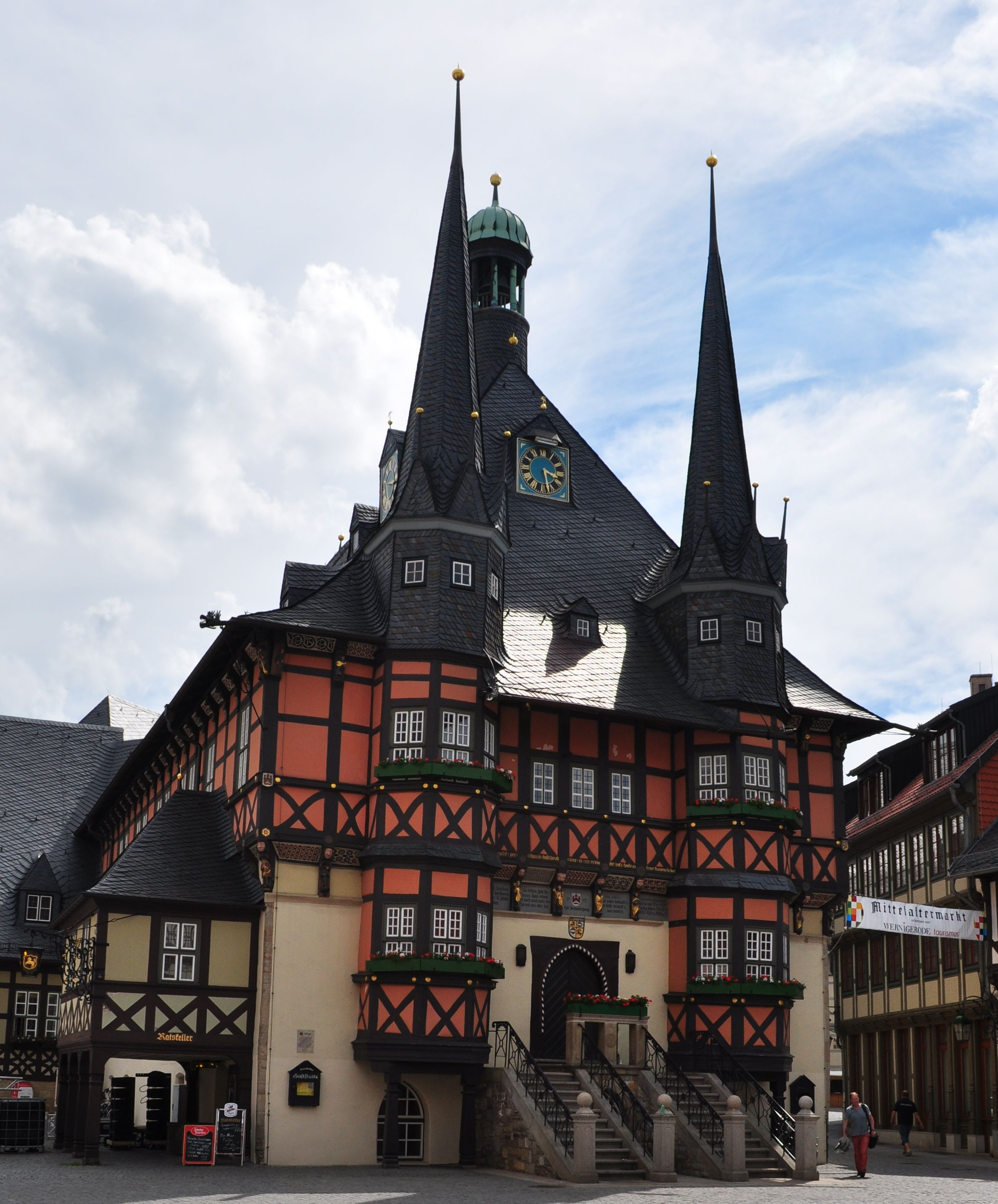 Main hall Wernigerode